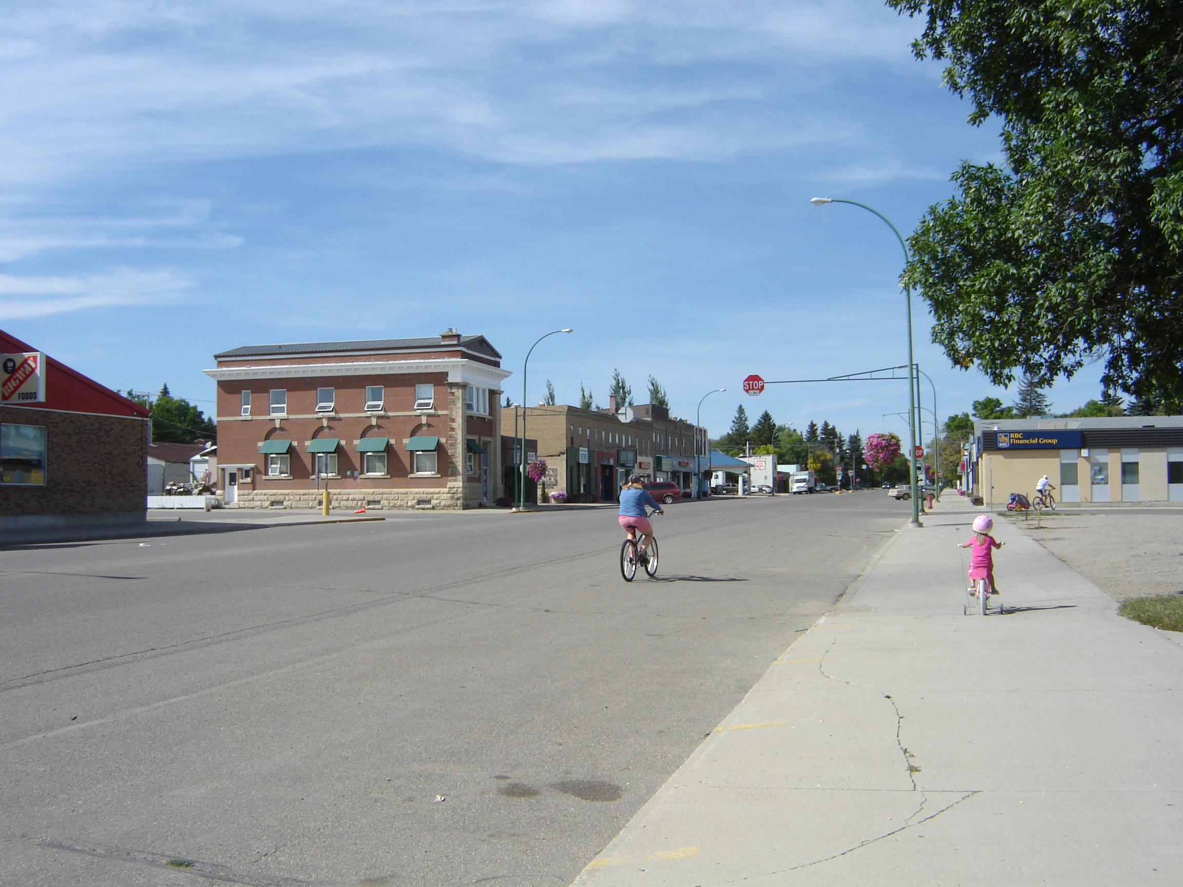 Indian Head Saskatchewan Streetscape Film Rescue International 500 Grand Ave RBC Royal Bank 501 Grand Ave Indian Head, SK S0G2K0